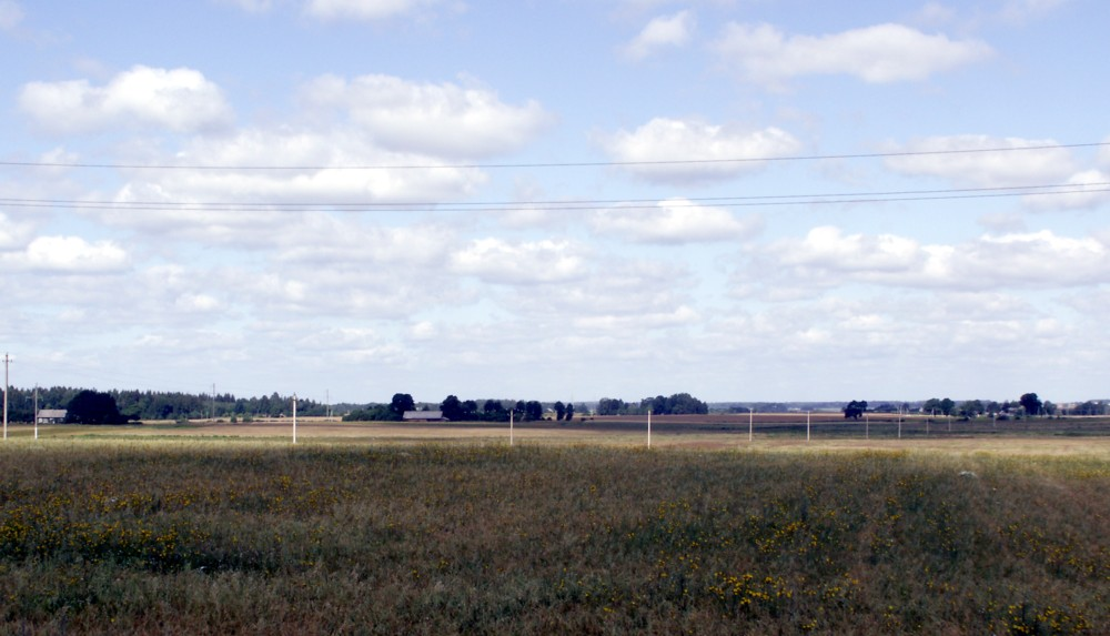 Meškiai, Šiauliai district, Lithuania